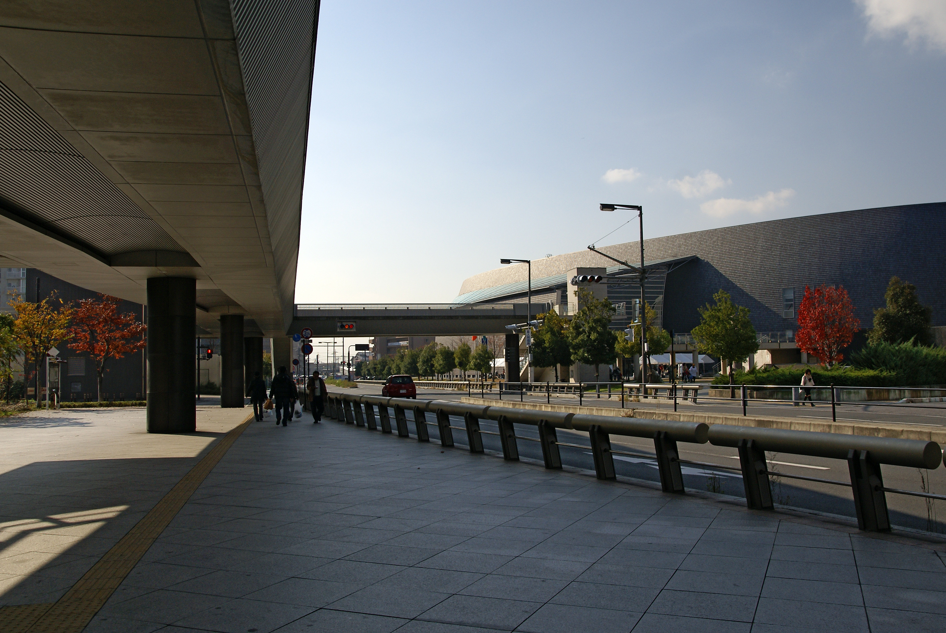 Nara Centennial Hall in Nara, Nara prefecture, Japan